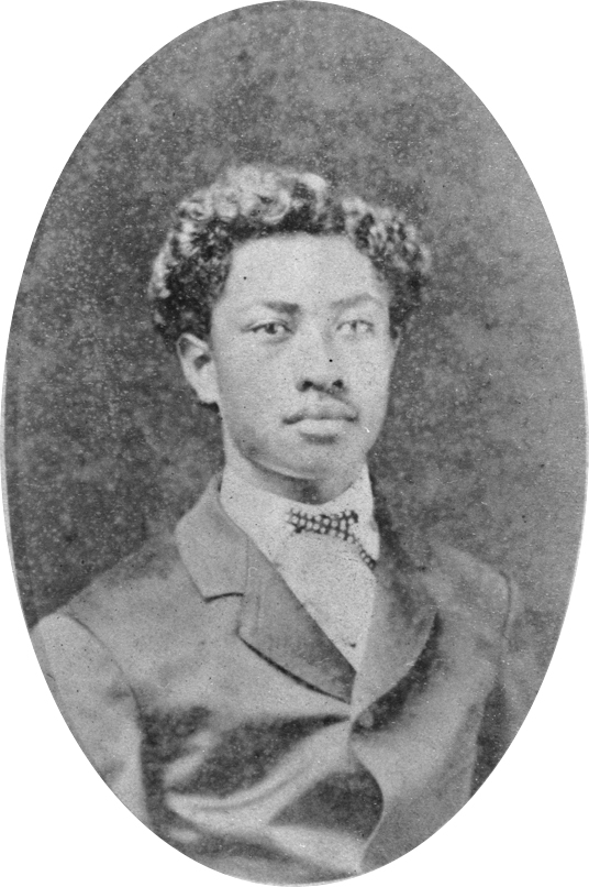 A young prince William Pitt Leleiohoku.